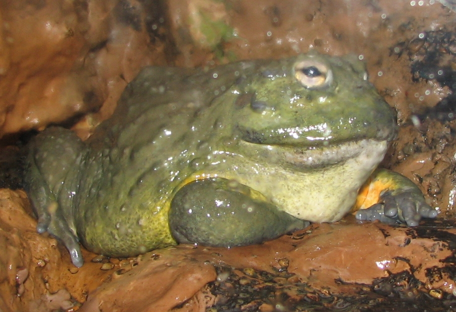 Pyxicephalus adspersus - African Bullfrog